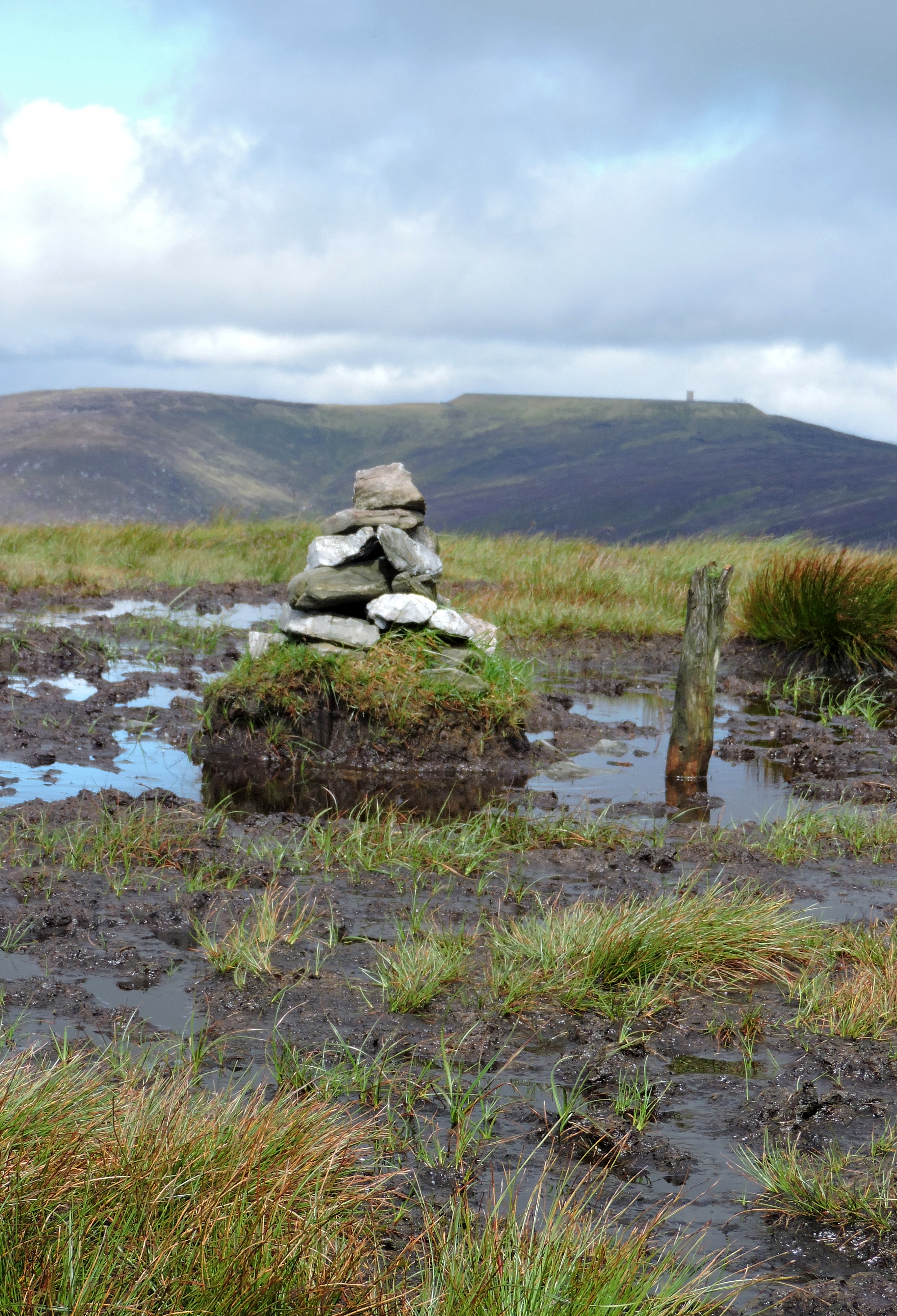 Mullacor summit, with Turlough Hill in the background